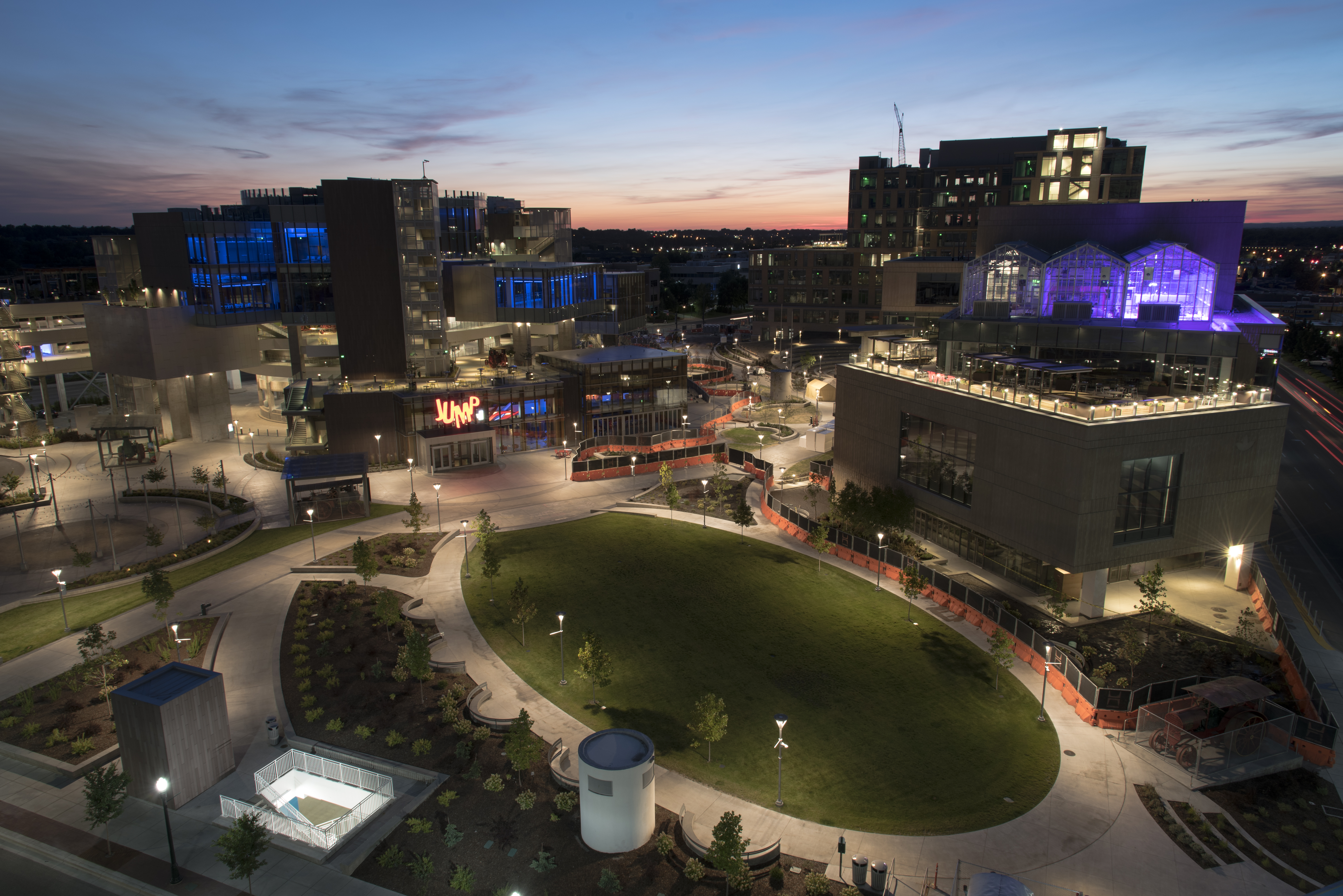 Jack's Urban Meeting Place and the JR Simplot World Headquarters.